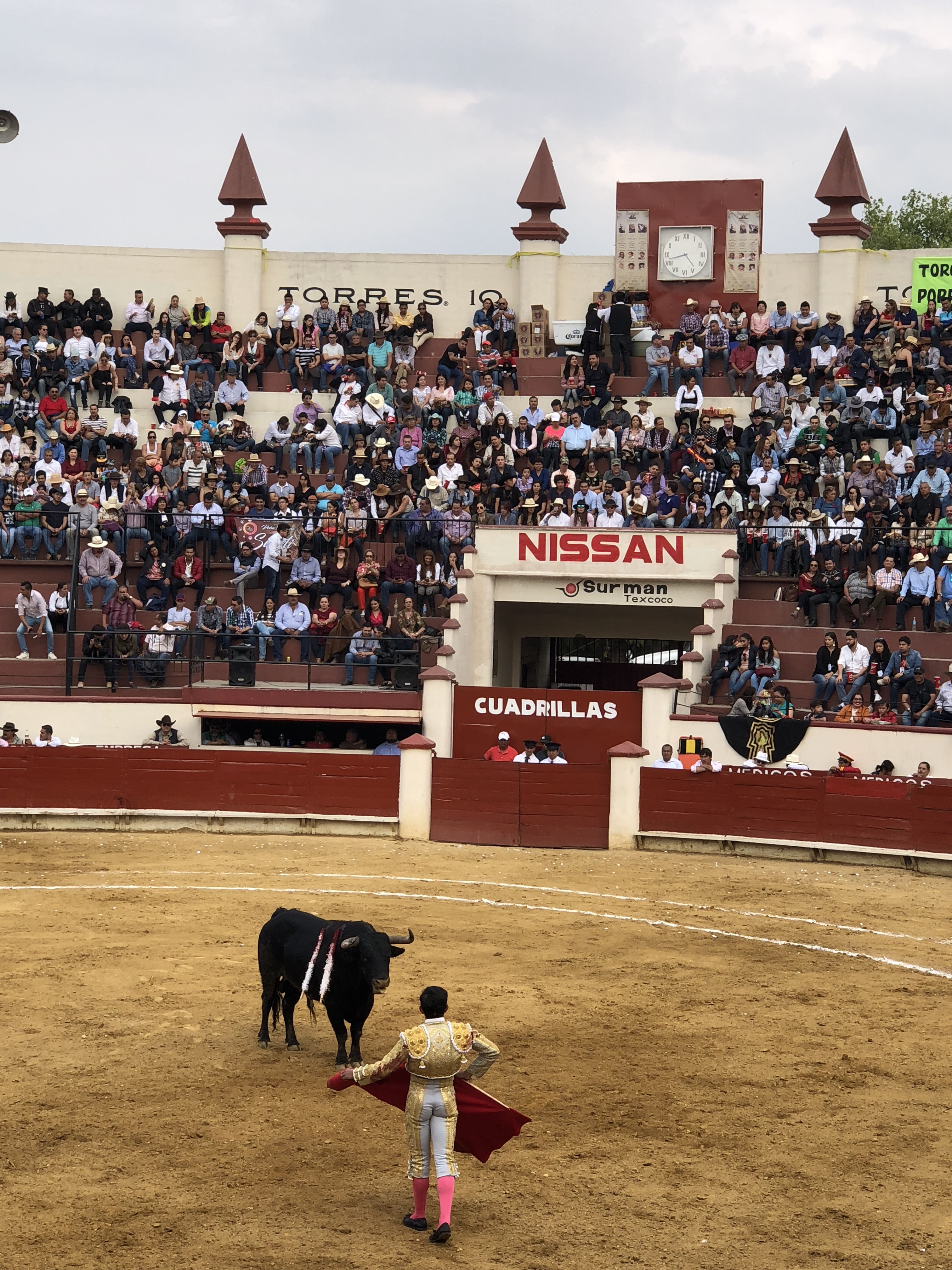 Joselito Adame bullfightning during Feria del Caballo Texcoco 2018. Texcoco, México.